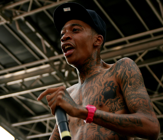 Wiz Khalifa at the JellyNYC's Pool Party (August 23rd, 2009).